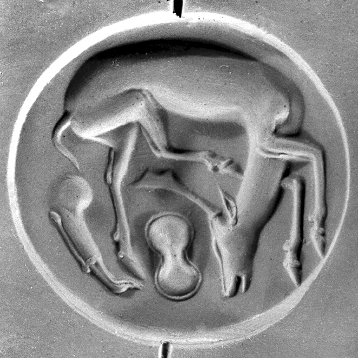 ancient minoan seal, ceramics